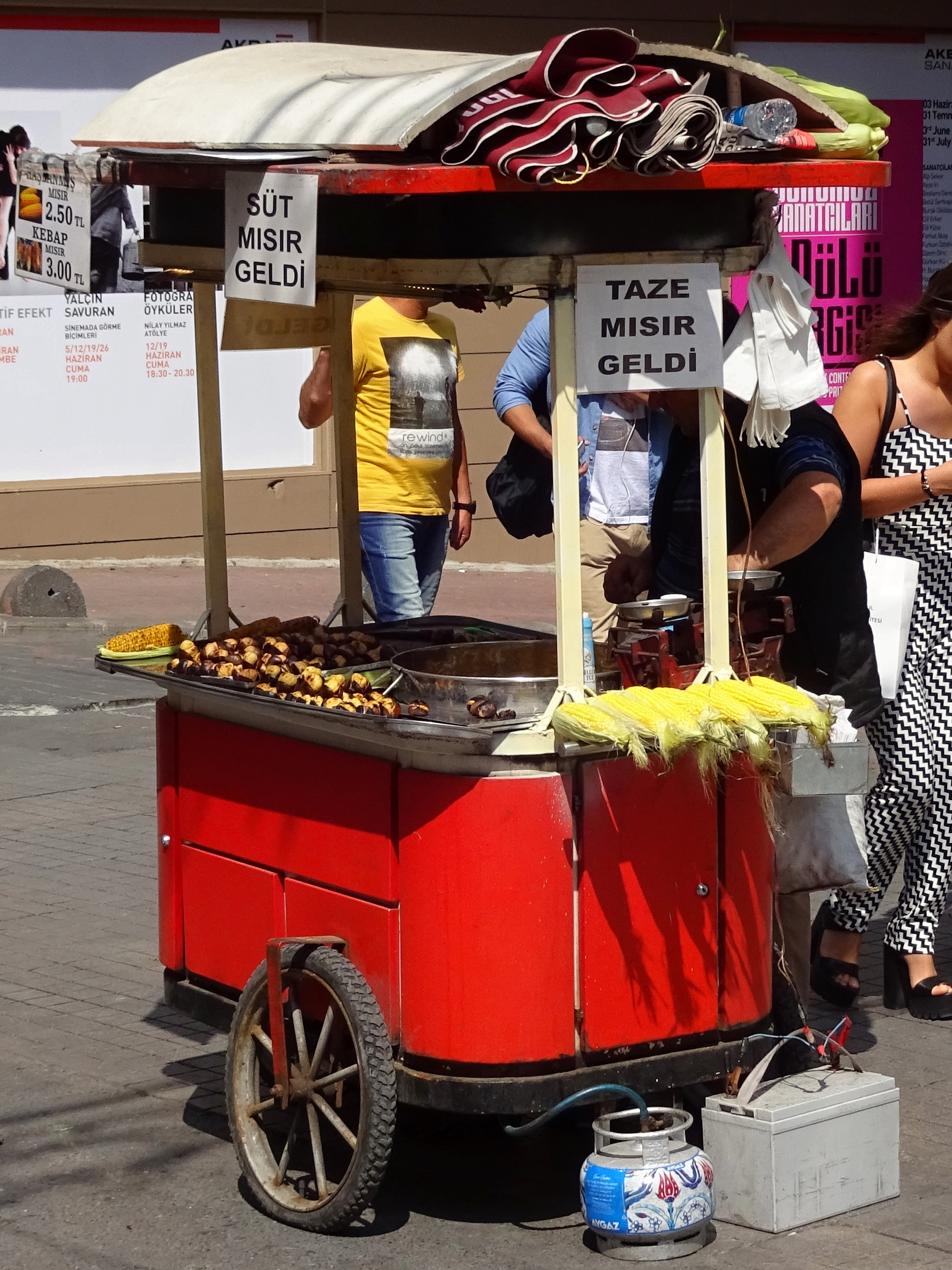 Street vendor with corncobs and chestnuts in Istanbul